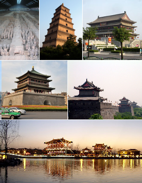 Montage of various Xi'an images